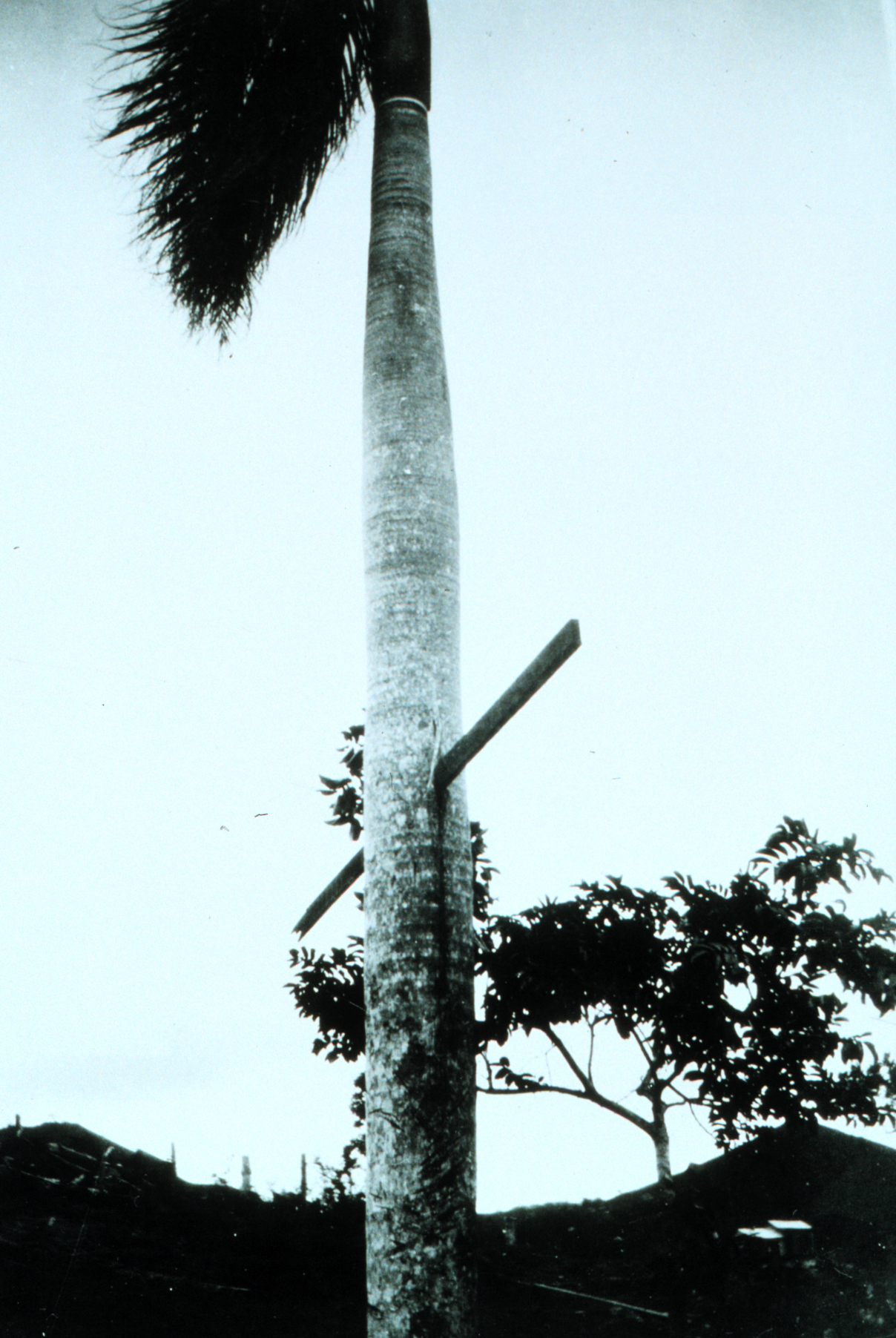 Hurricane winds drive a 10-foot 2X4 through a palm tree in Puerto Rico